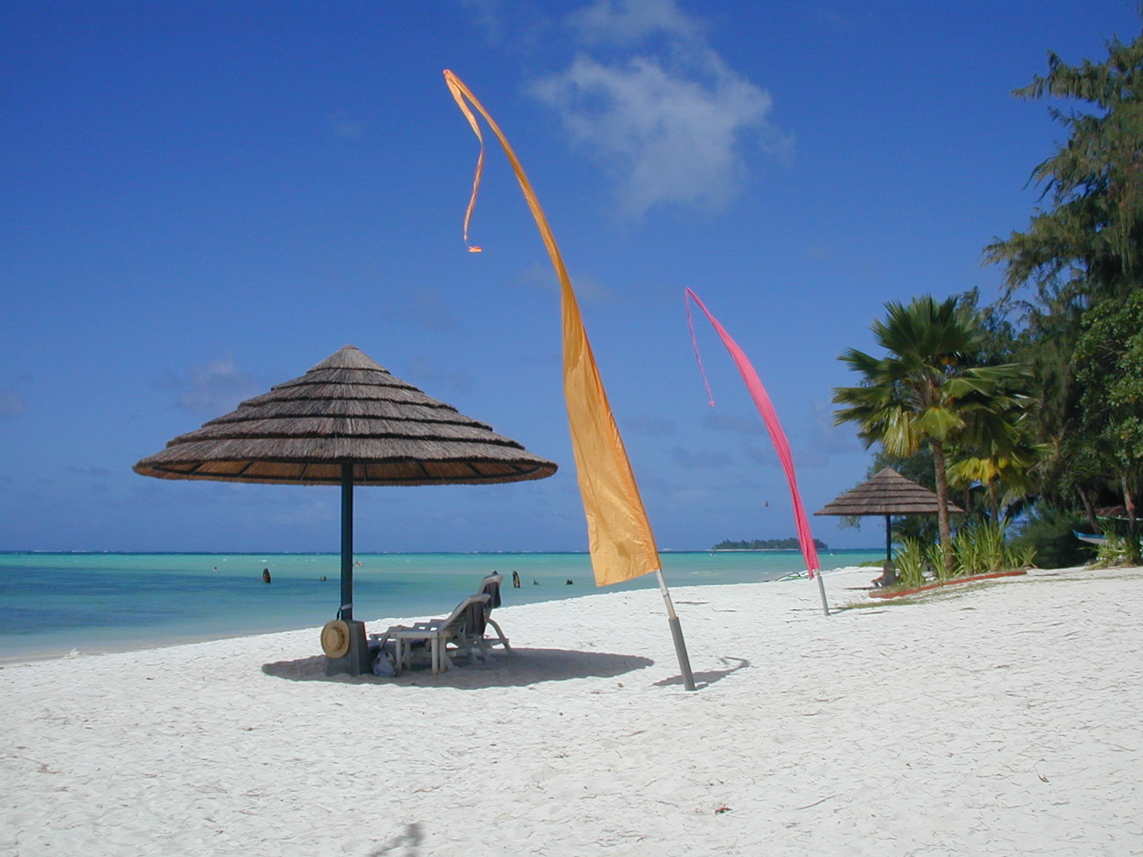 Taken at Micro Beach, Saipan.